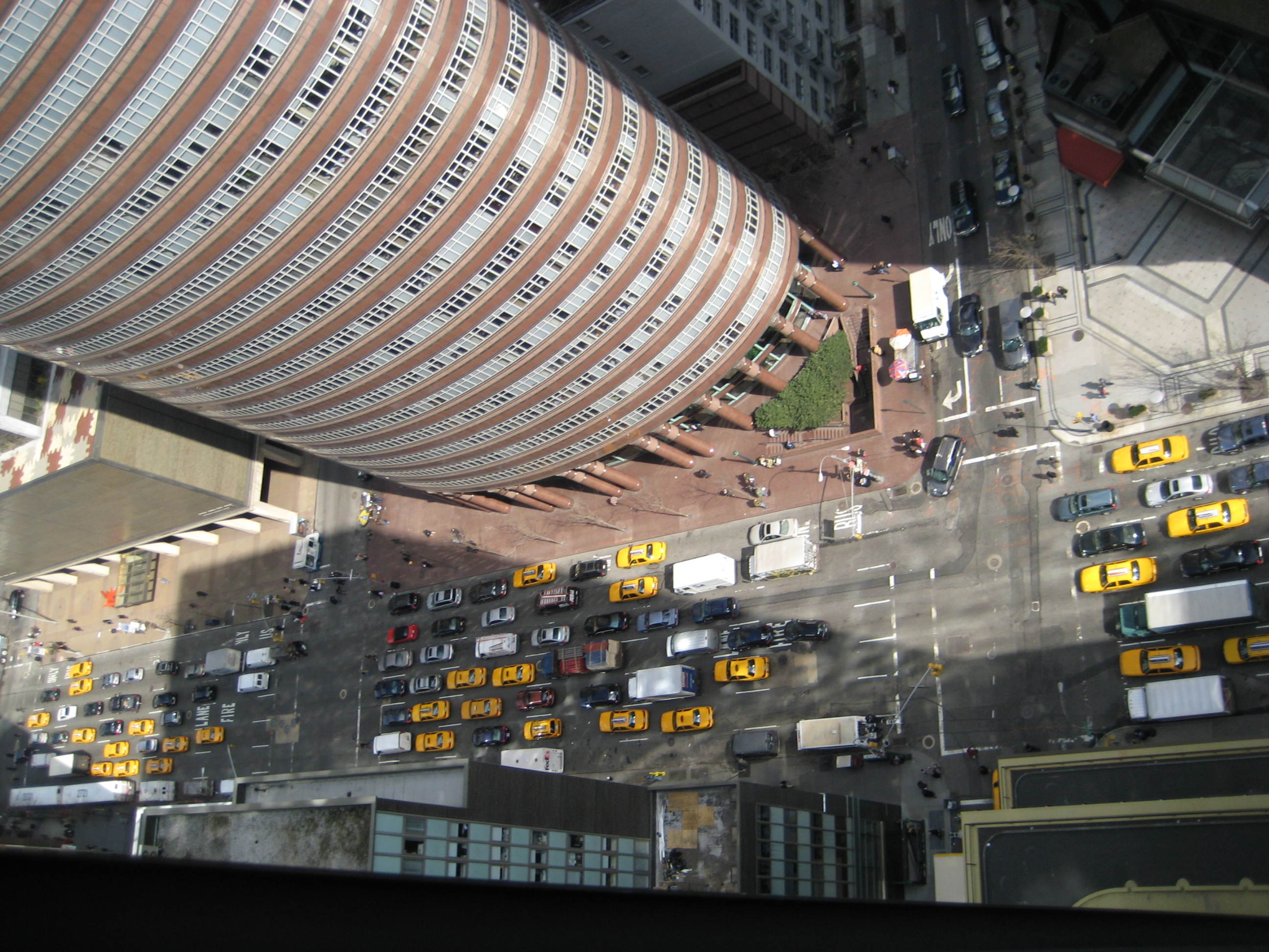 The lipstick building in New York